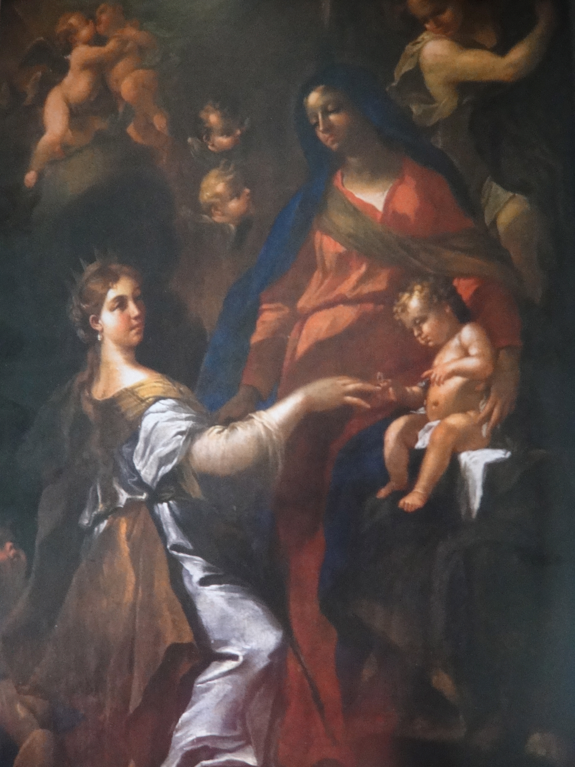 The mystic marriage of St Catherine of Alexandria by Giuseppe D'Arena (18th cent.) located at St George's Basilica Victoria.